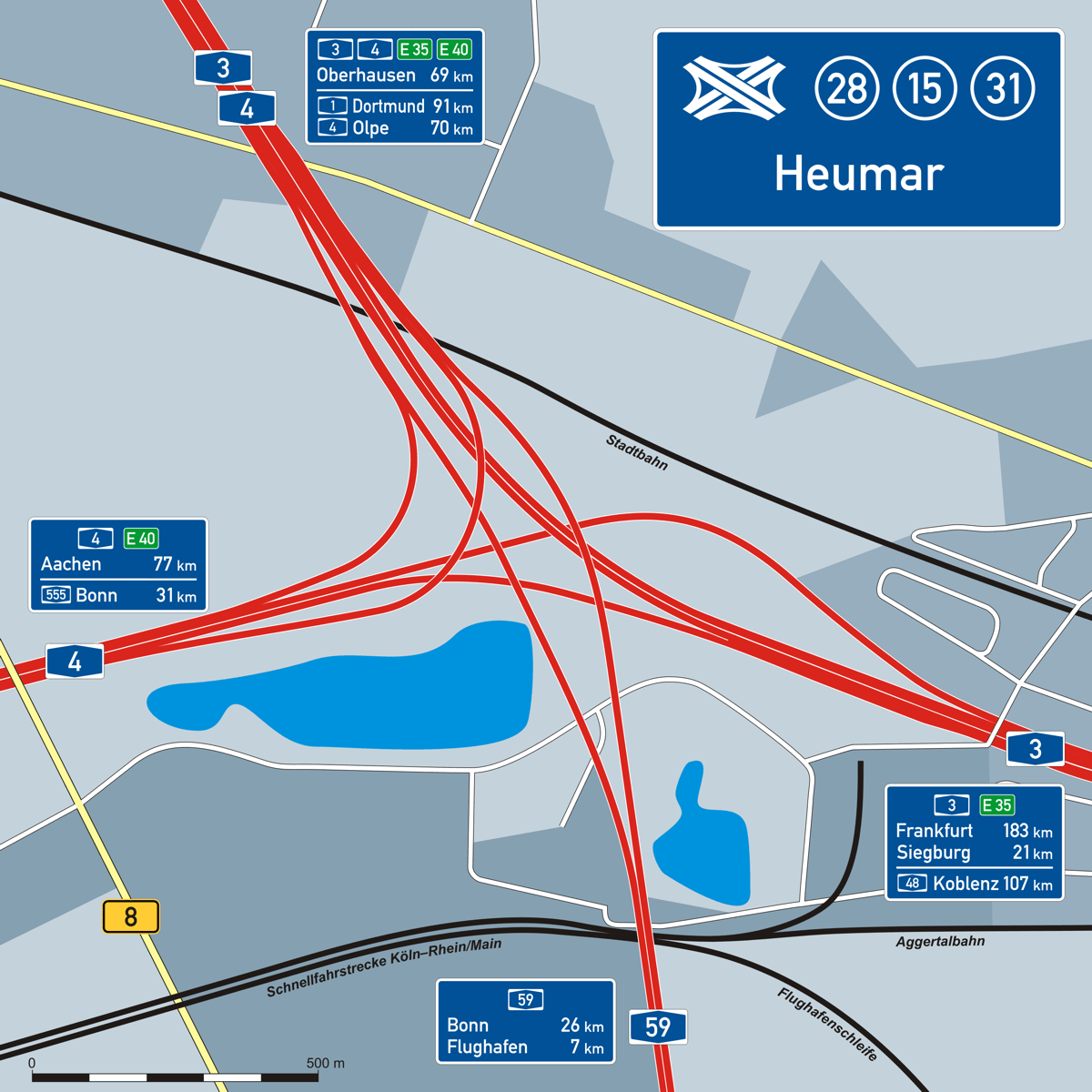 Interchange “Heumarer Dreieck”